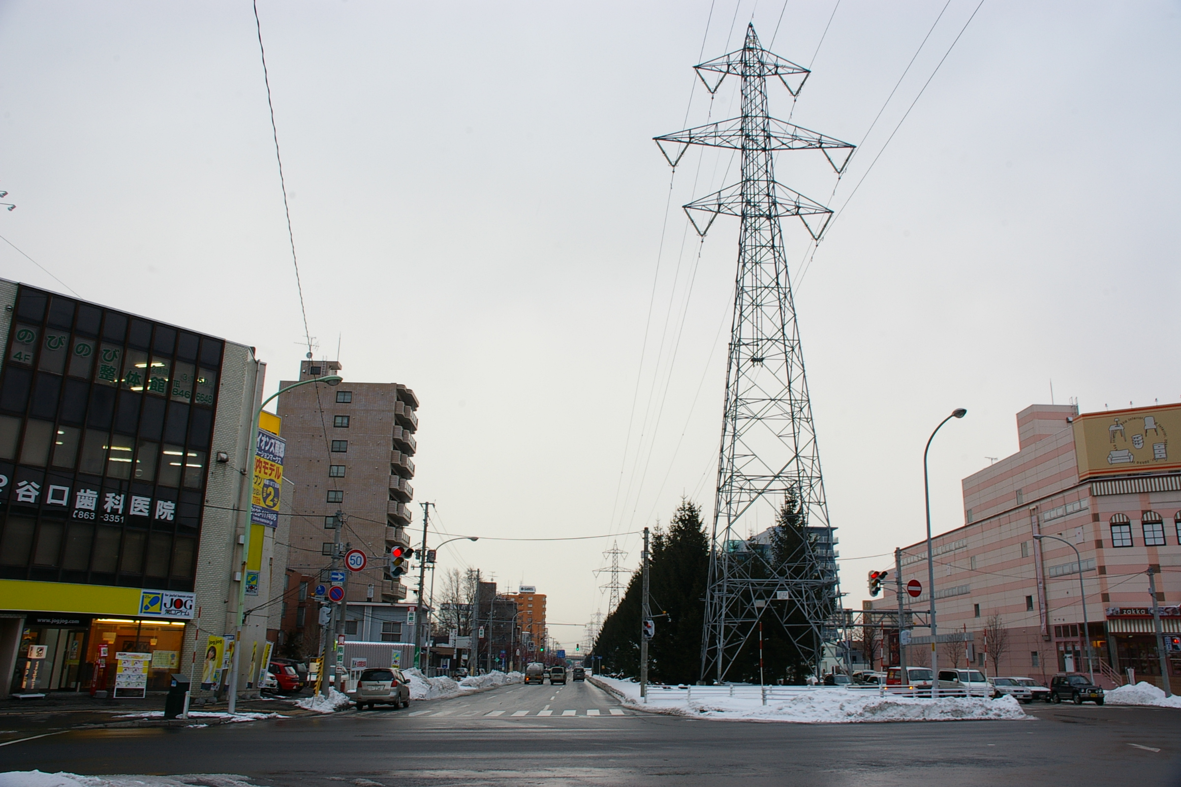 Kiyota avenue to north.